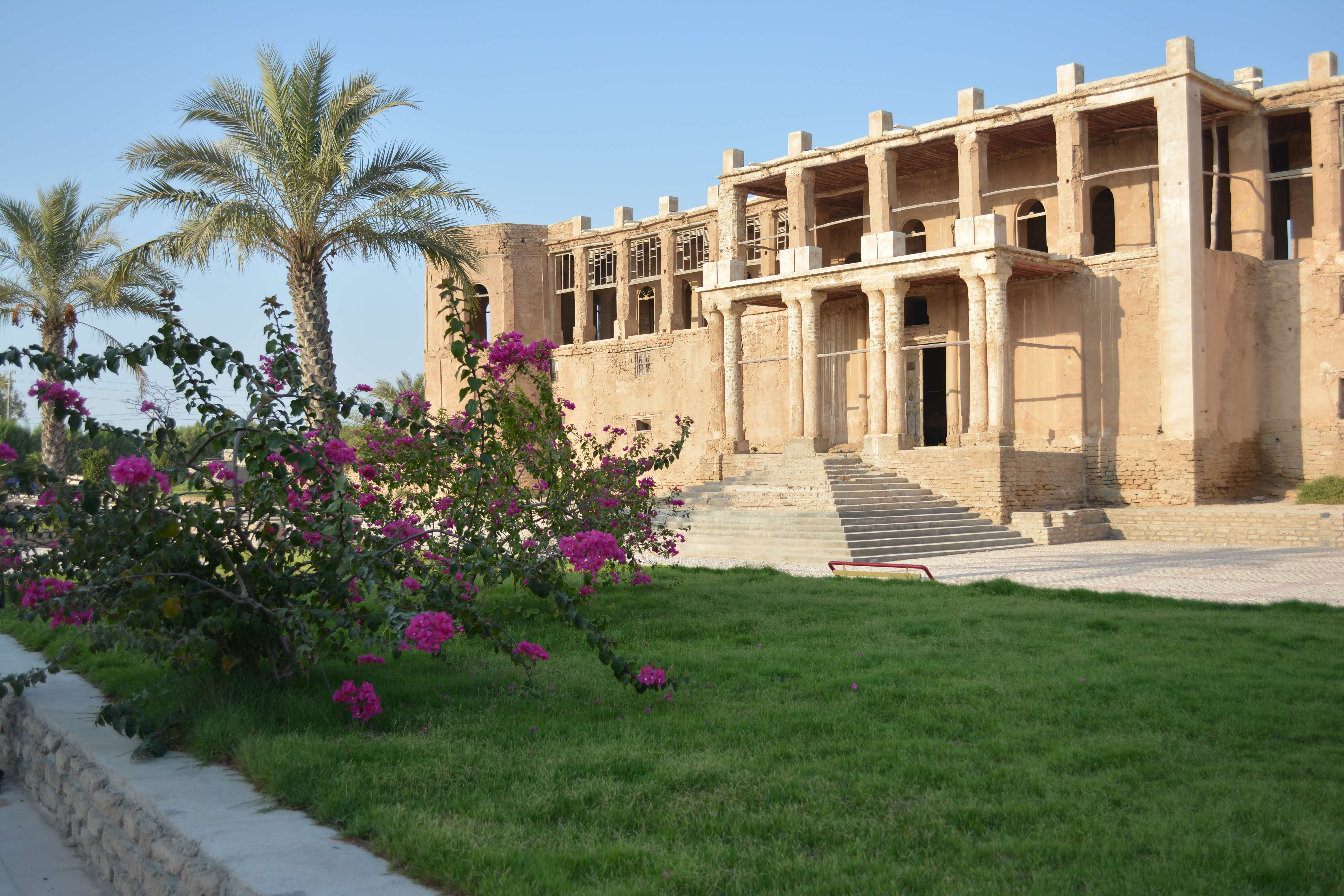 کاخ ملک بوشهر